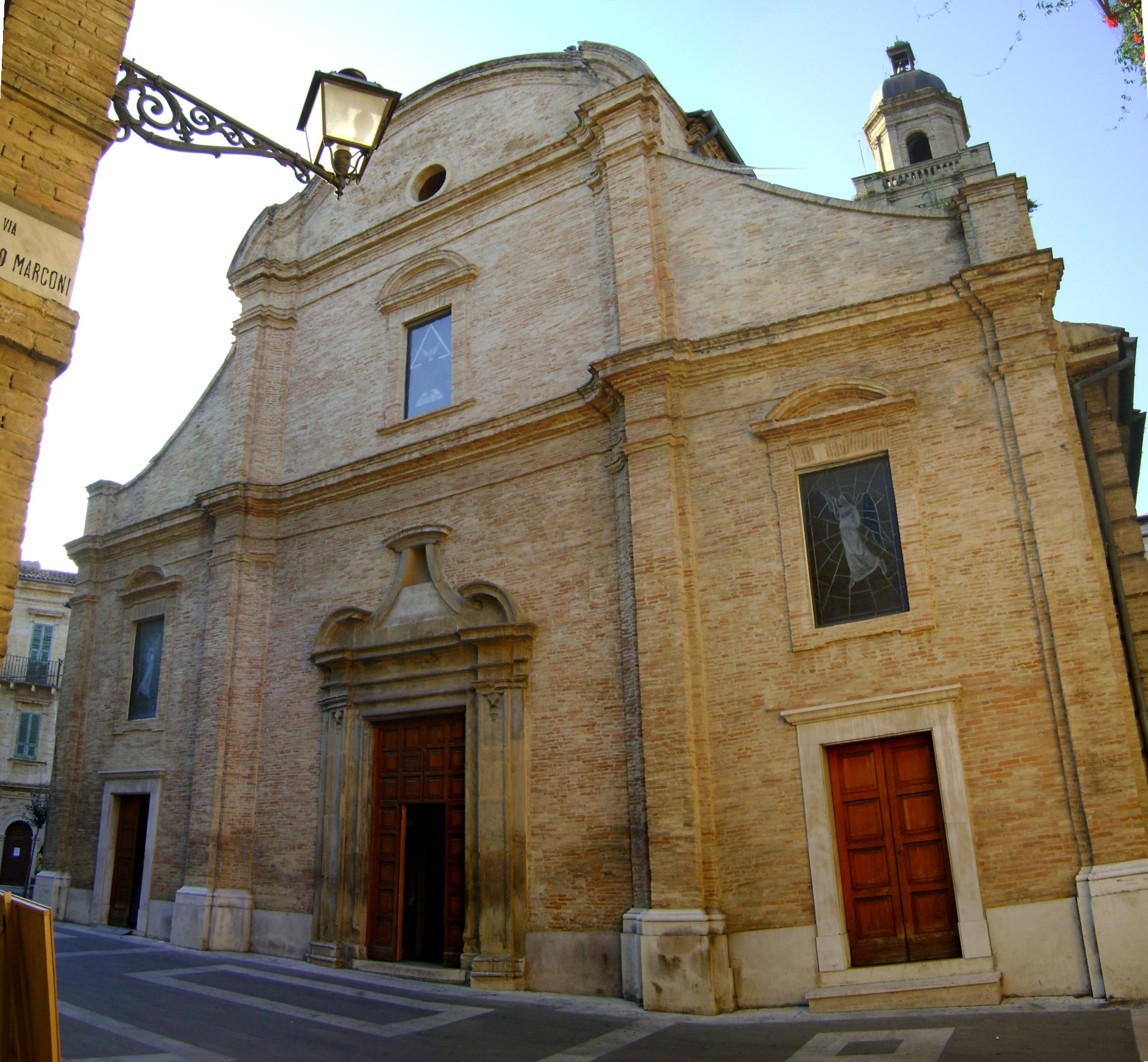 The mother church of San Salvatore, Casalbordino, province of Chieti, Abruzzo